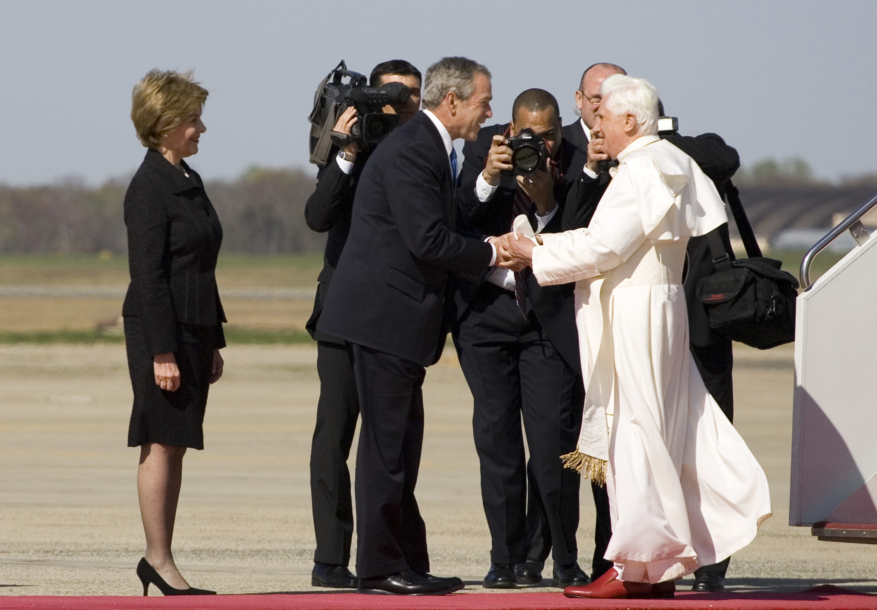 President George W. Bush and Laura Bush Greet Pope Benedict XVI on His Arrival at Andrews Air Force Base, Maryland, 4/15/2008